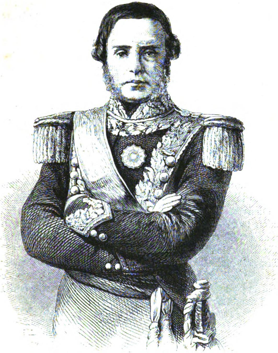 Justo J. Urquiza. Presidente of the Argentine Confederation.